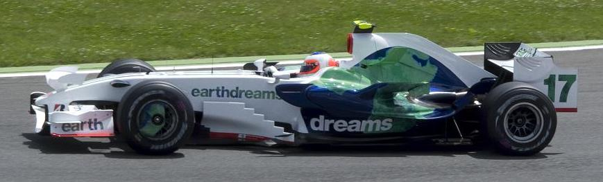 Rubens Barrichello driving for Honda F1 at the 2008 French Grand Prix.